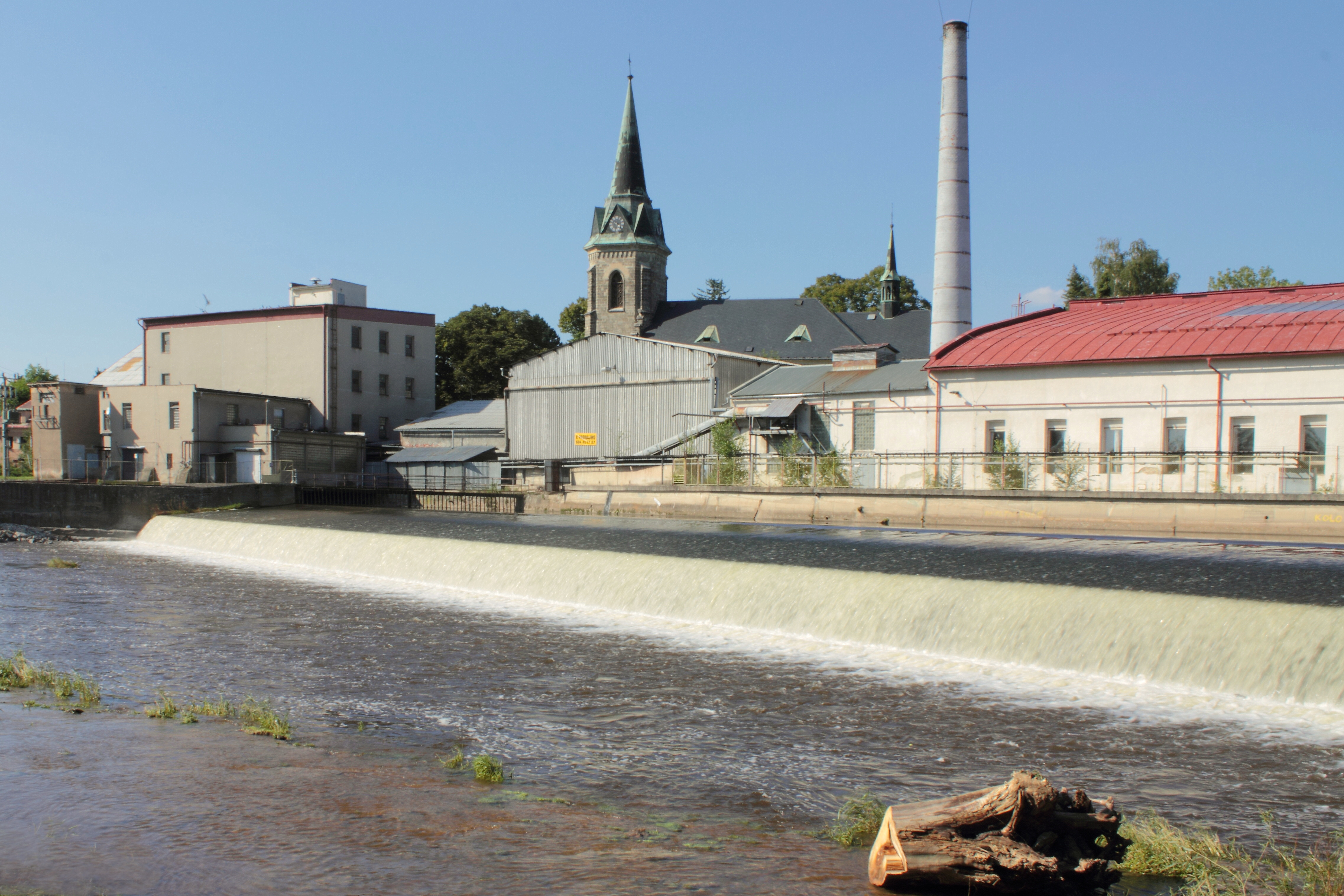 Přepeře from Jizera